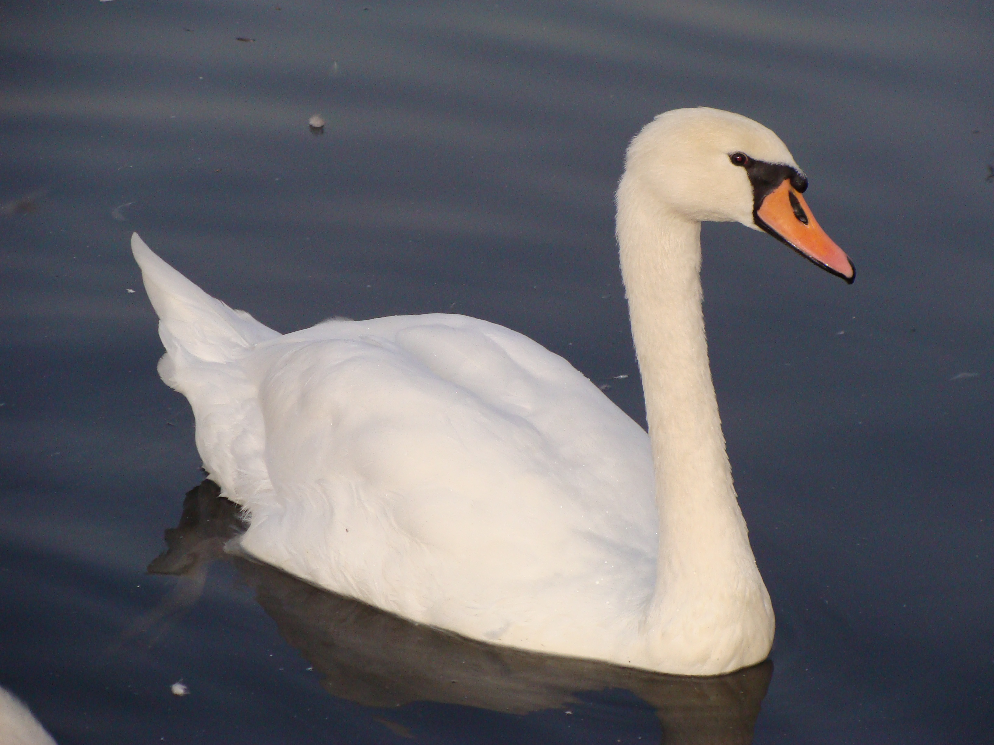 Cygnus olor (Mute Swan) in The Round Pound (Hyde Park, Londres).